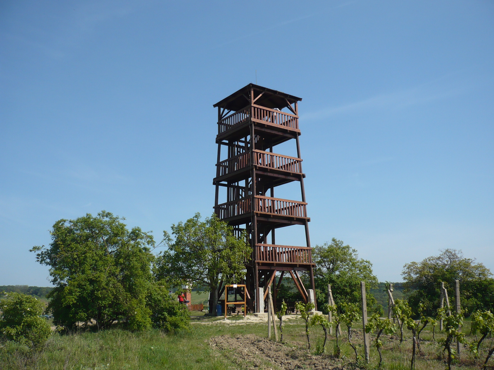 Kravi hora Observation Tower near Velke Pavlovice